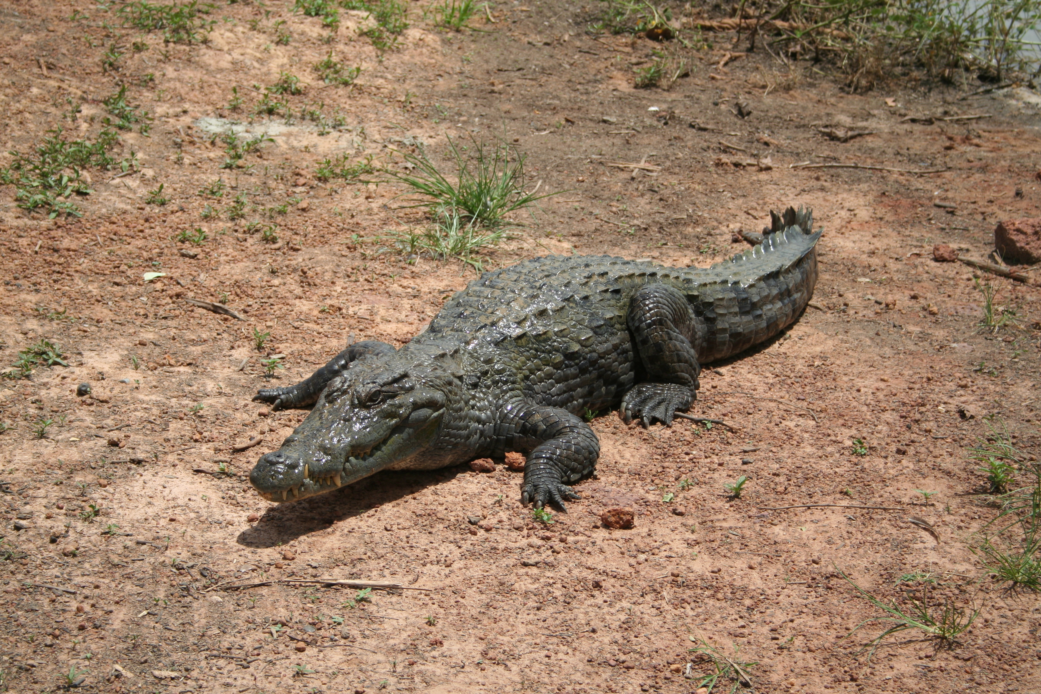 Sacred crocodiles of Bazoulé, Burkina Faso.